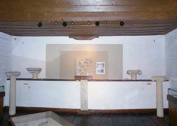 Parts from the Early Christian basilicas of Sophronios and St George at Nikiti, image from the Christian Halkidiki Exhibition, Ouranoupoli, Central Macedonia, Greece